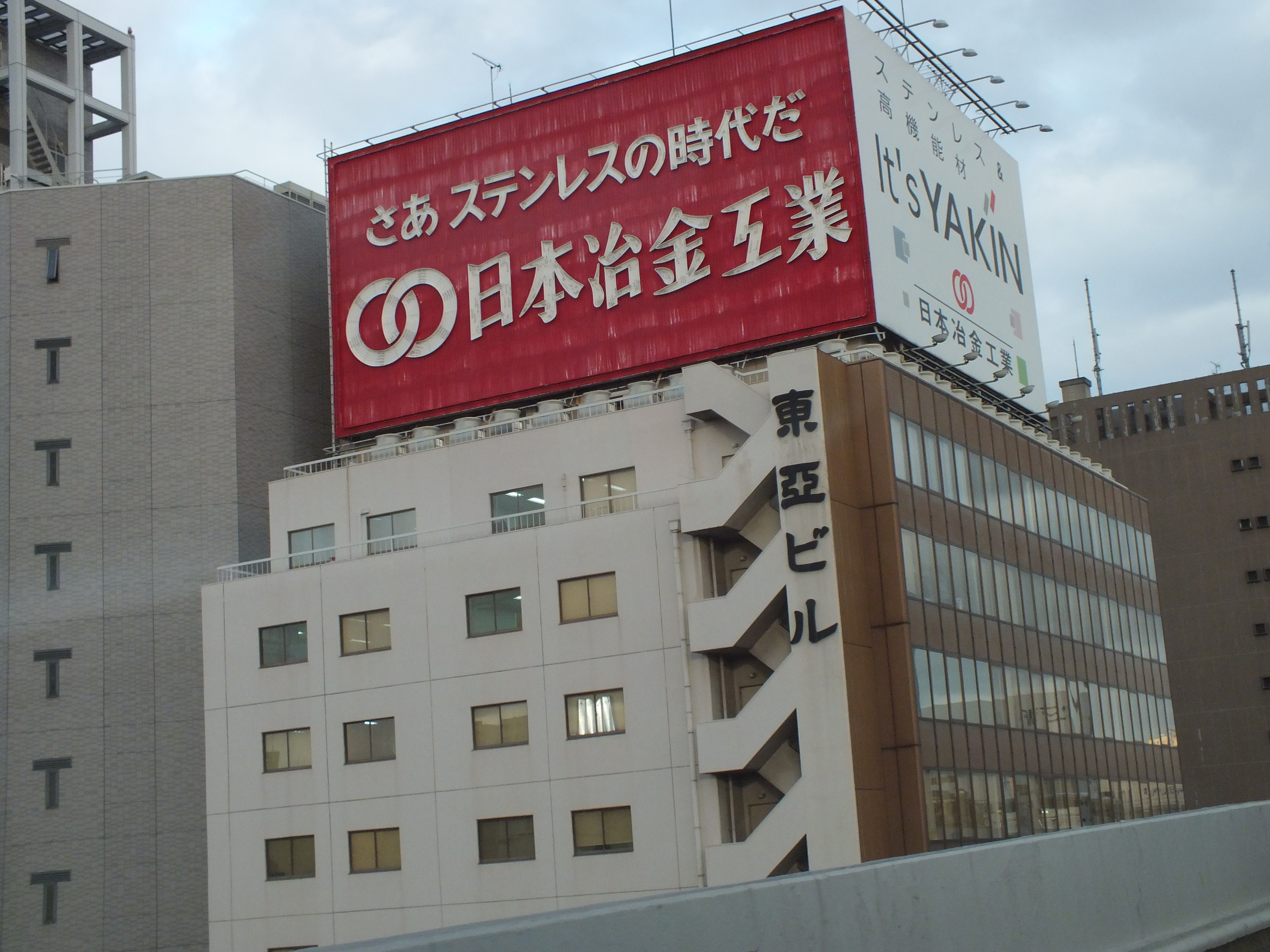 Billboard of Nippon Yakin Kogyo Co., Ltd.